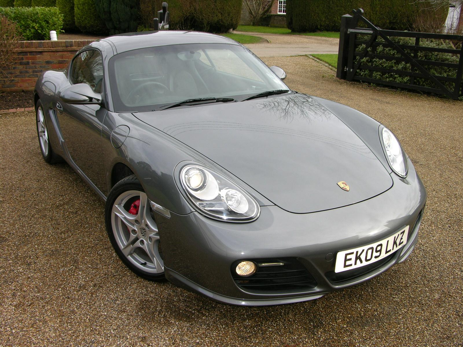 2009 Porsche Cayman S